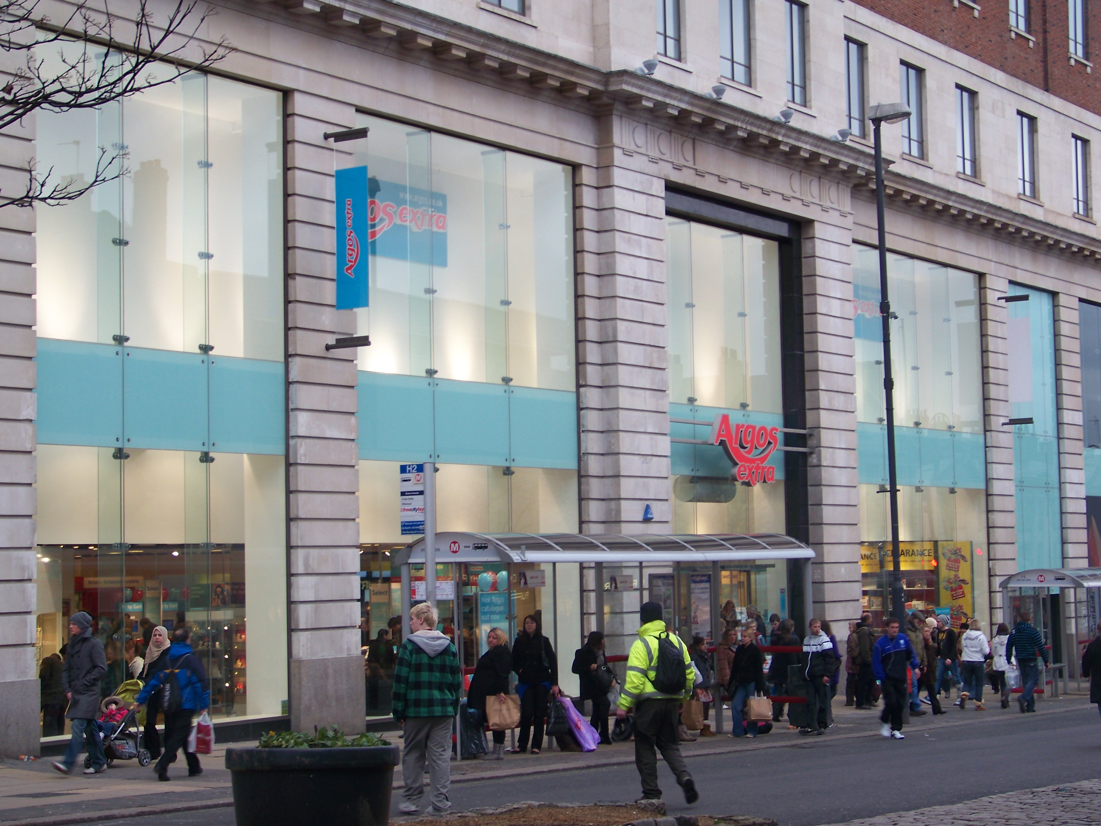 Argos on The Headrow in Leeds. Taken shortly after Argos opened this branch replacing two smaller branches on Eastgate and Albion Street. The building is the former Lewis's/Allders building. Taken on the afternoon of Saturday 23rd January 2010.